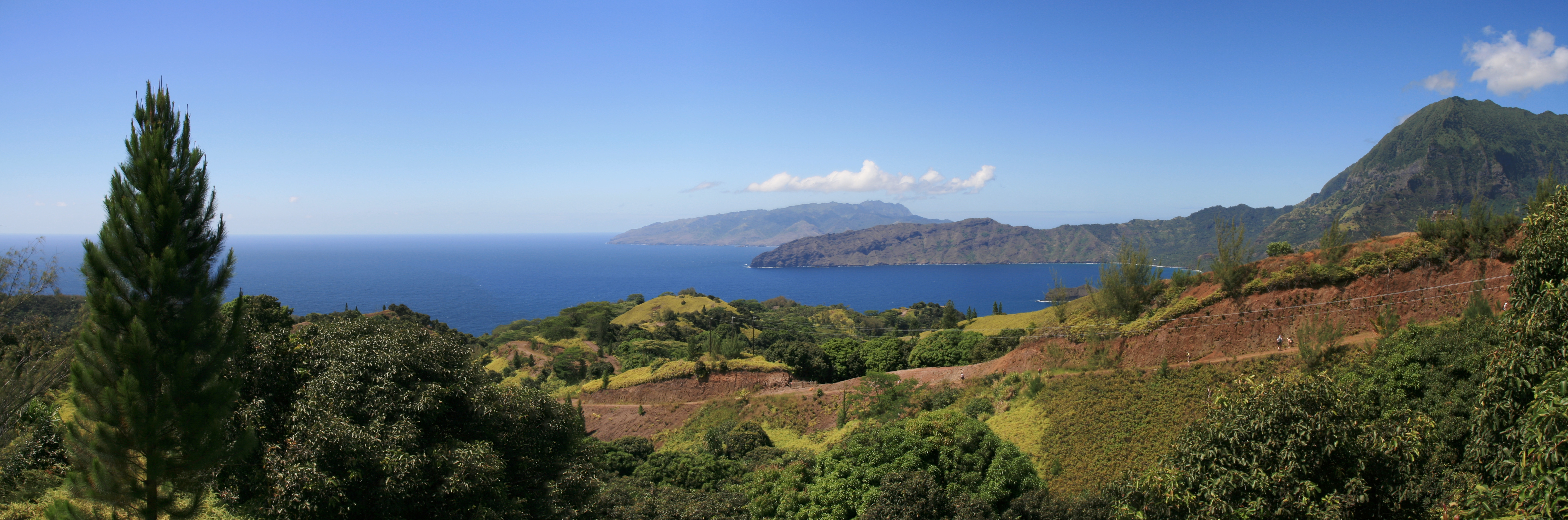 View from Hiva Oa to south-west, Marquesas Islands, French Polynesia. Tahuata island is visible in the background.